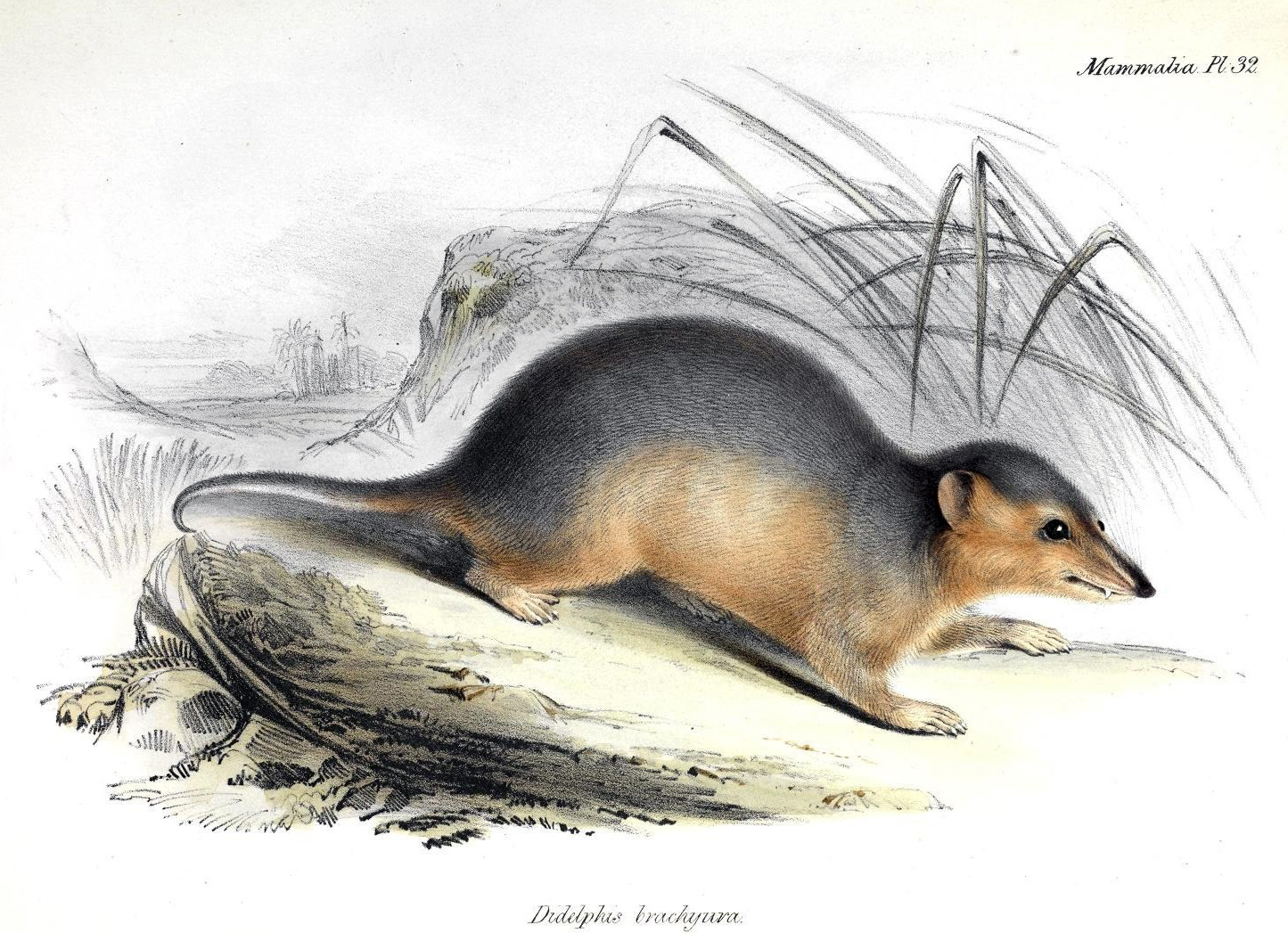 The zoology of the voyage of H.M.S. Beagle .... London,Smith, Elder & Co.,1838-.